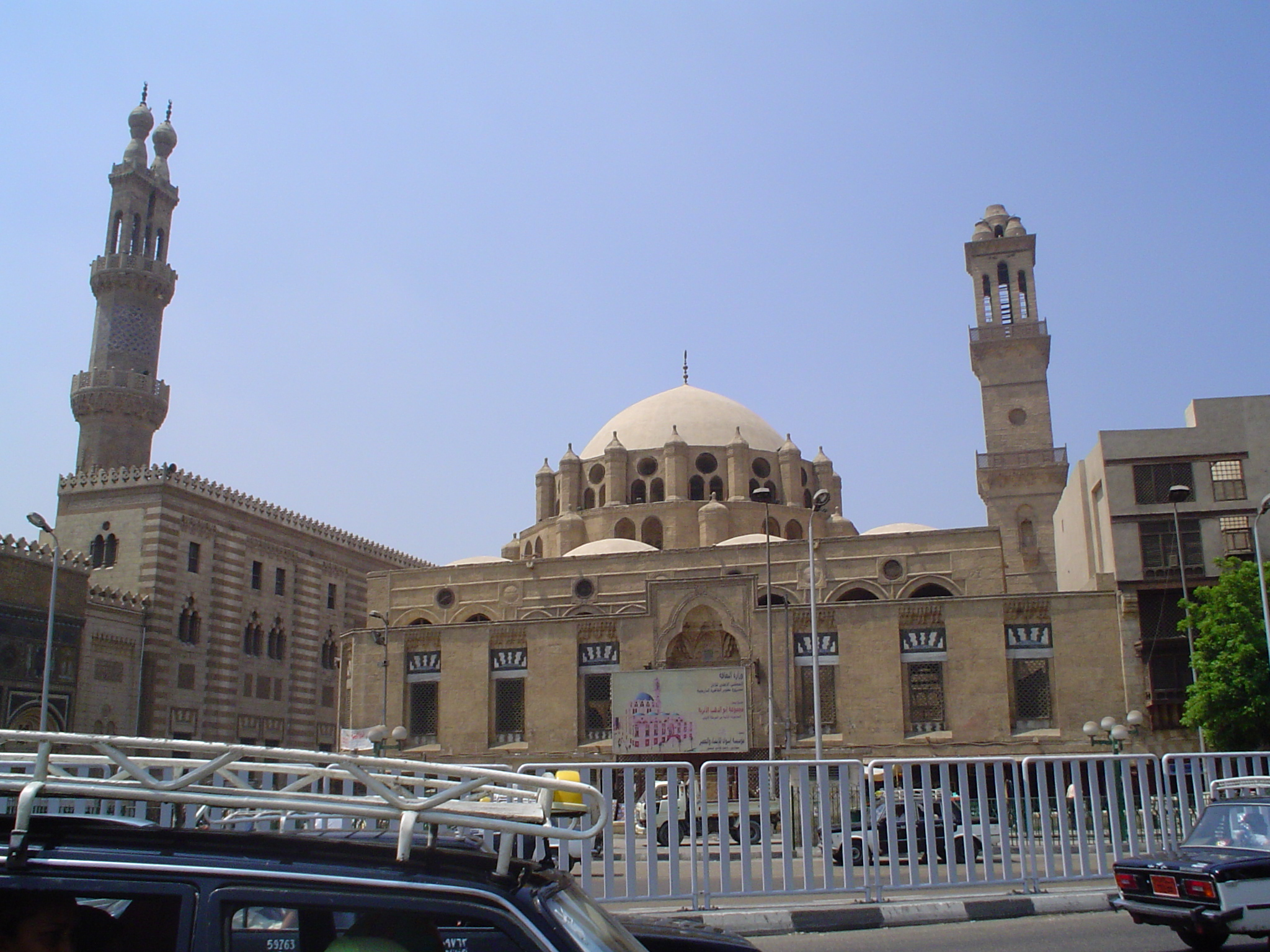 Al-Azhar Mosque and Al Azhar University, Cairo.